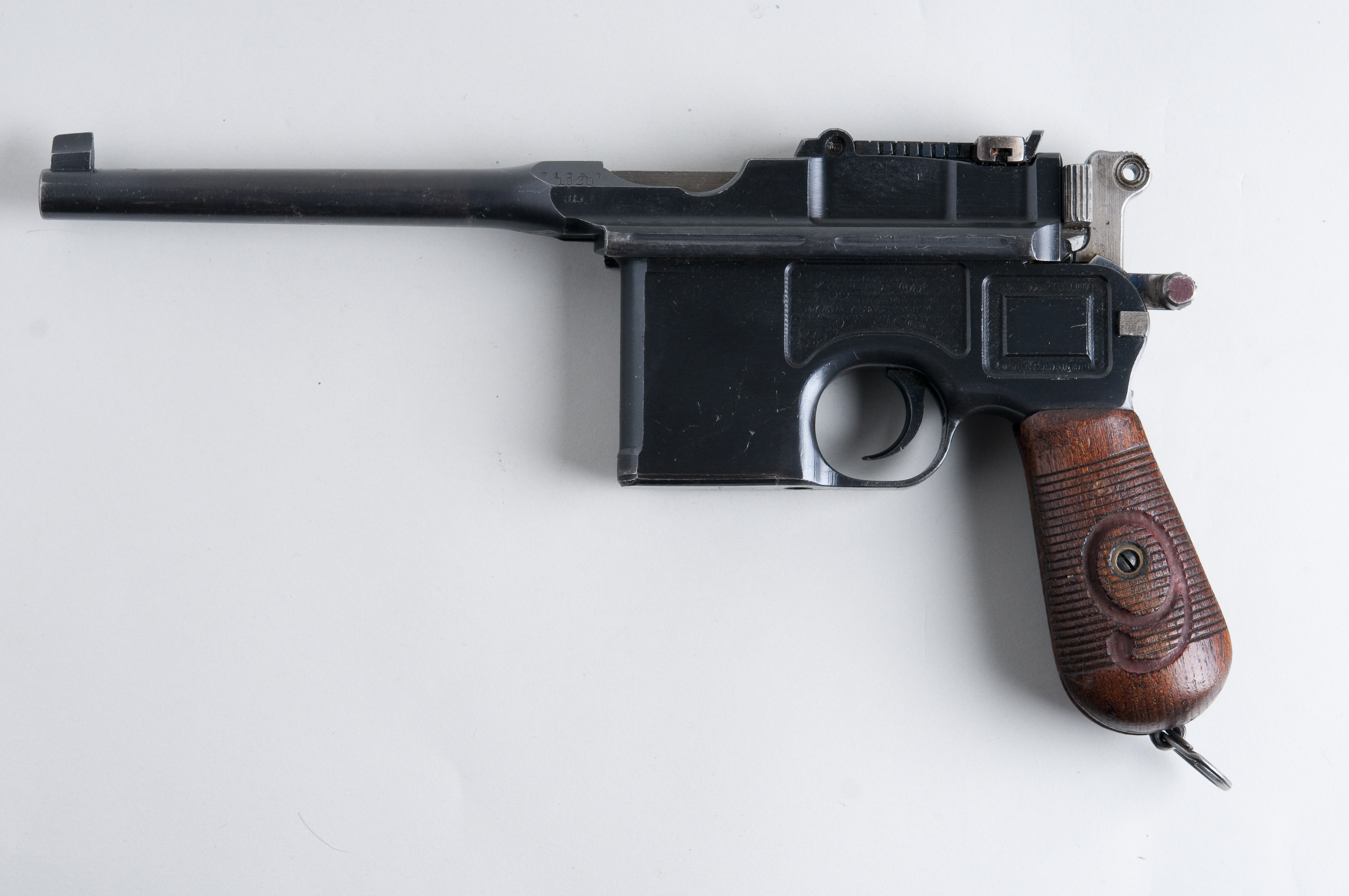 Mauser C96 From flickr user handvapensamlingen - Pistols used in Norway.